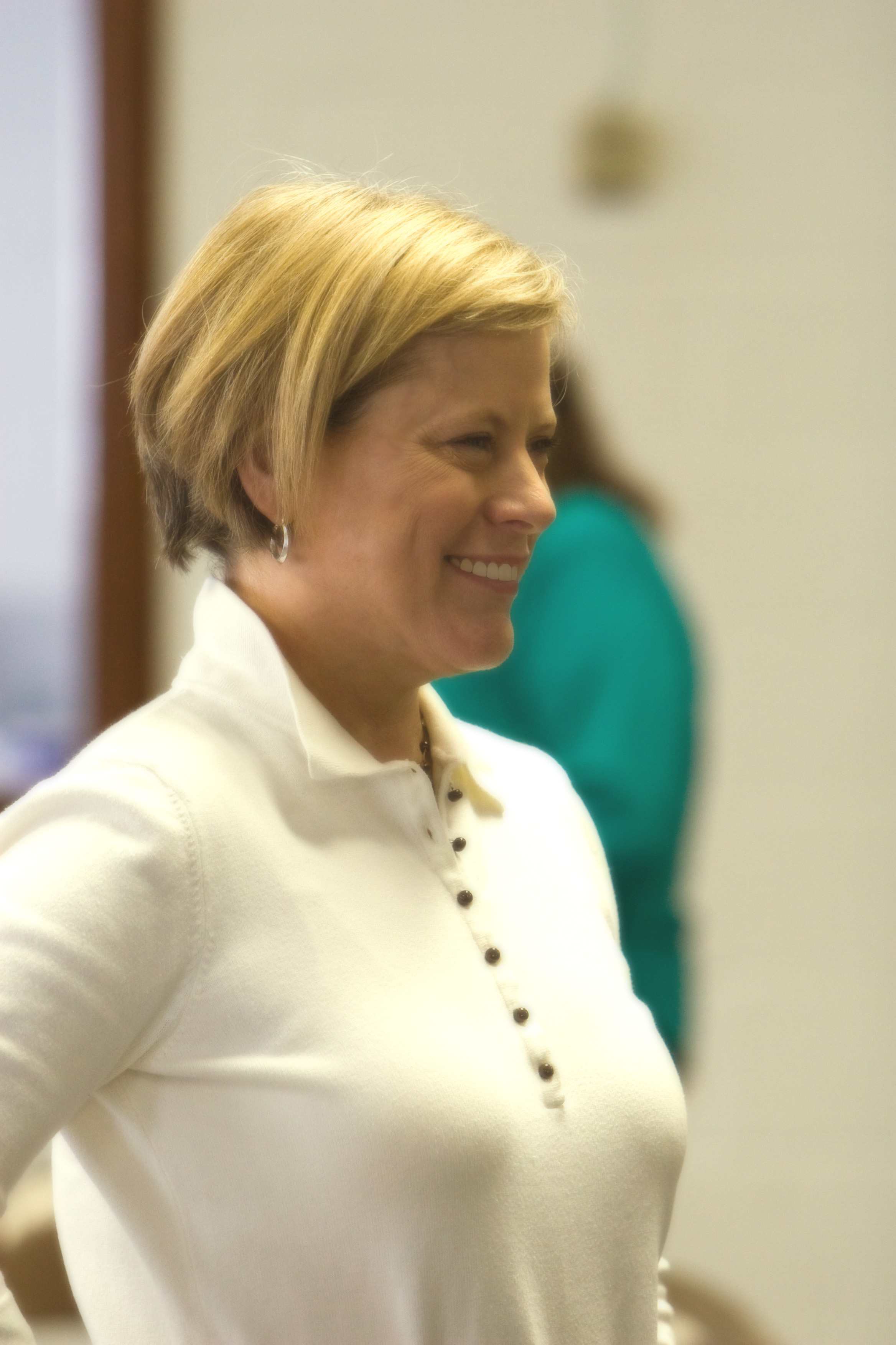 Congresswoman Nancy Boyda answers questions during a town hall meeting held in Rossville, KS.